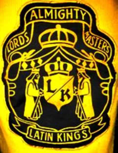 Sweater patch used in sweaters the gang wore in the 60's thru 80's.